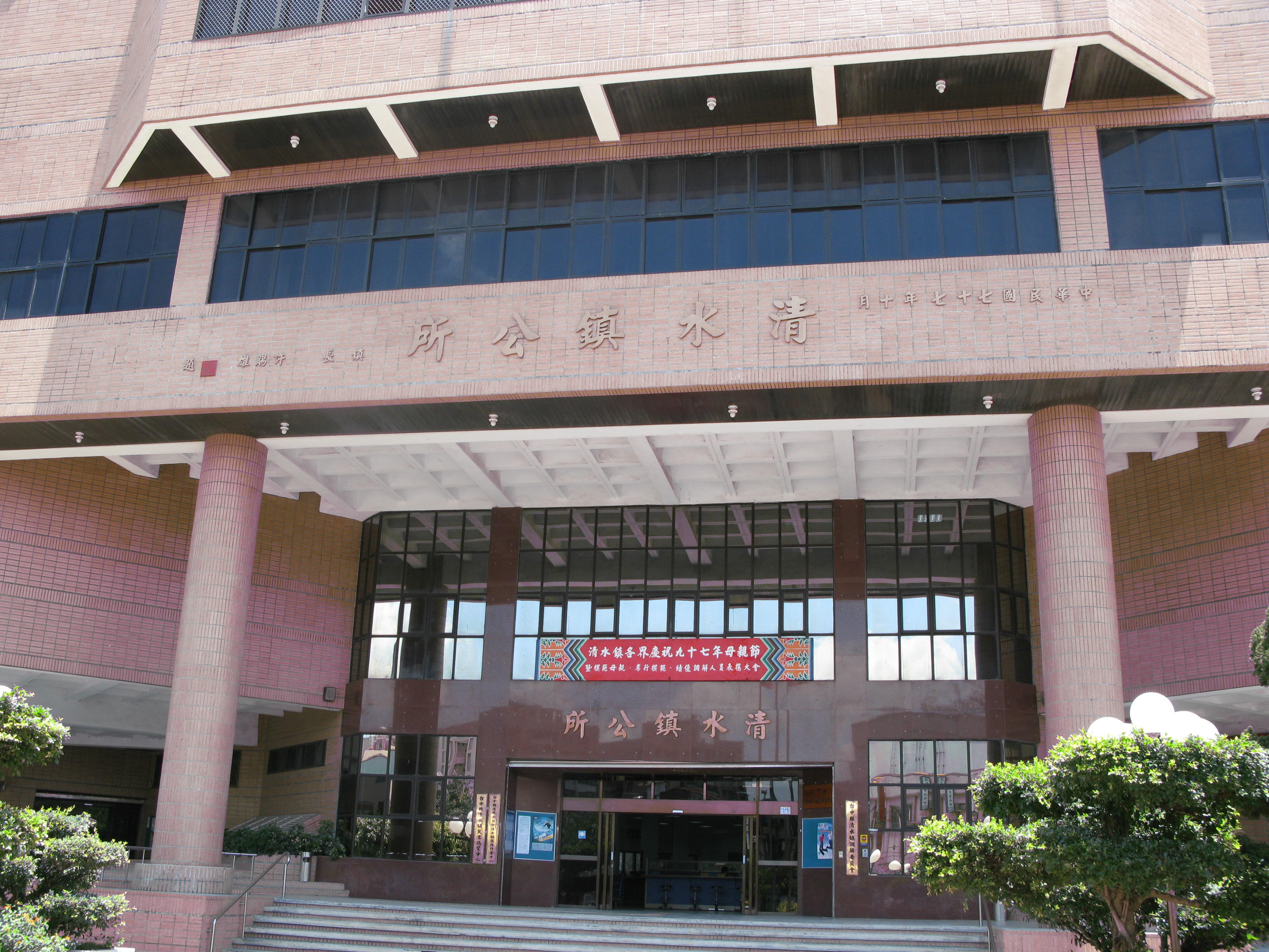 Cingshuei Township Office, Taichung County.